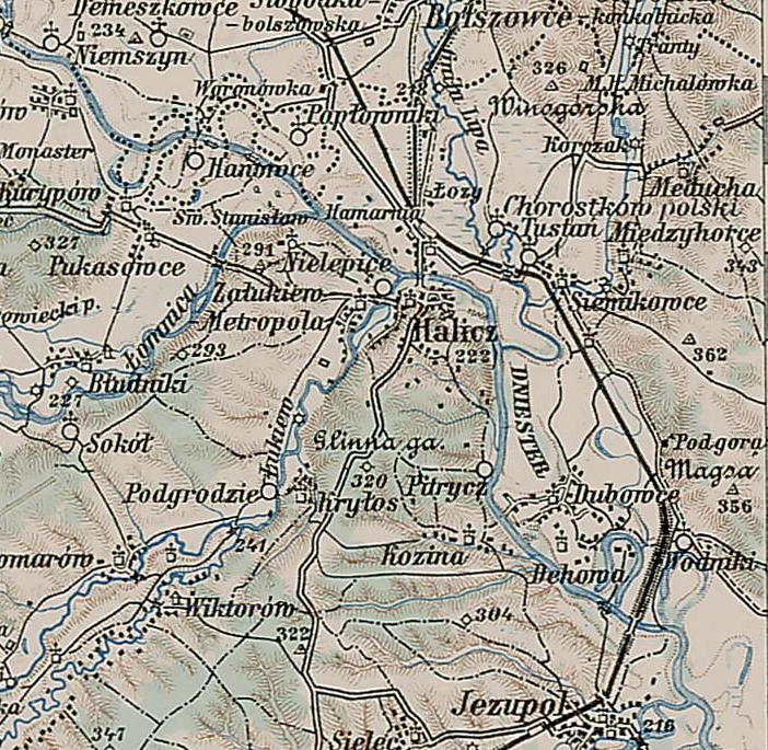 Halicz, old map from 1889